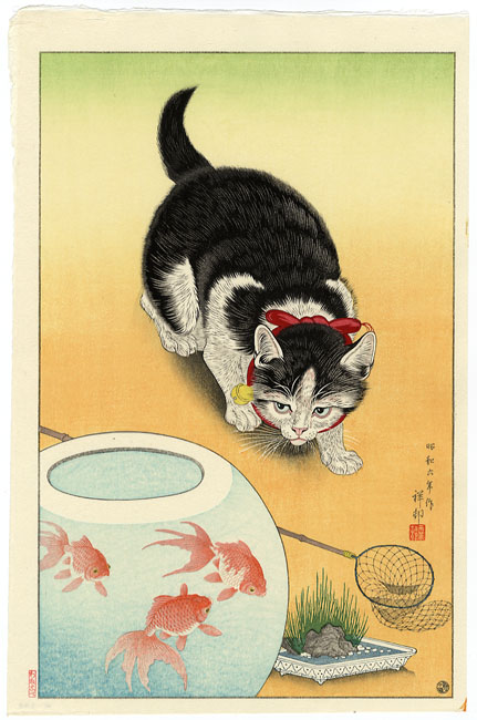 "Cat and Goldfish—orange" by Ohara Koson